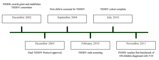 This timeline shows major events over the history of The Environmental Determinants of Diabetes in the Young (TEDDY) study.